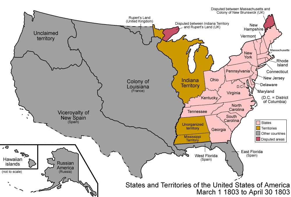 Map of the states and territories of the United States as it was from March 1803 to April 1803. On March 1 1803, part of Northwest Territory was admitted as the state of Ohio; the rest was joined to Indiana Territory. On April 30 1803, Louisiana was purchased from France, and a dispute arose if it included a portion of West Florida.